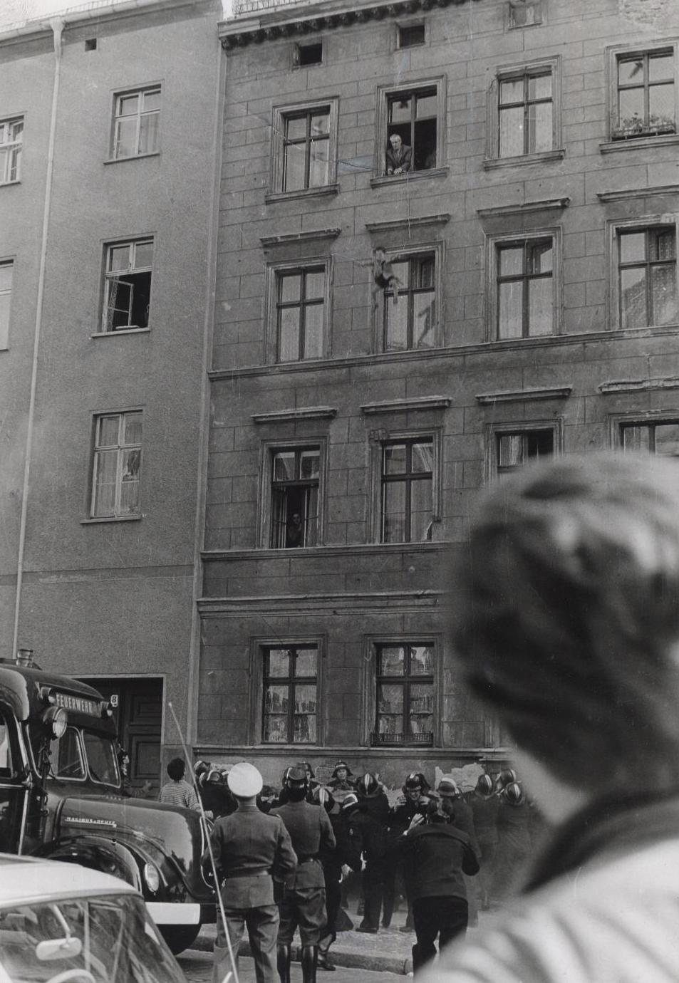 Oct. 7, 1961. Four-year-old Michael Finder of East Germany is tossed by his father into a net held by residents across the border in West Berlin. The father, Willy Finder, then prepares to make the jump himself. From the booklet "A City Torn Apart: Building of the Berlin Wall." For more information, visit CIA's Historical Collections webpage (